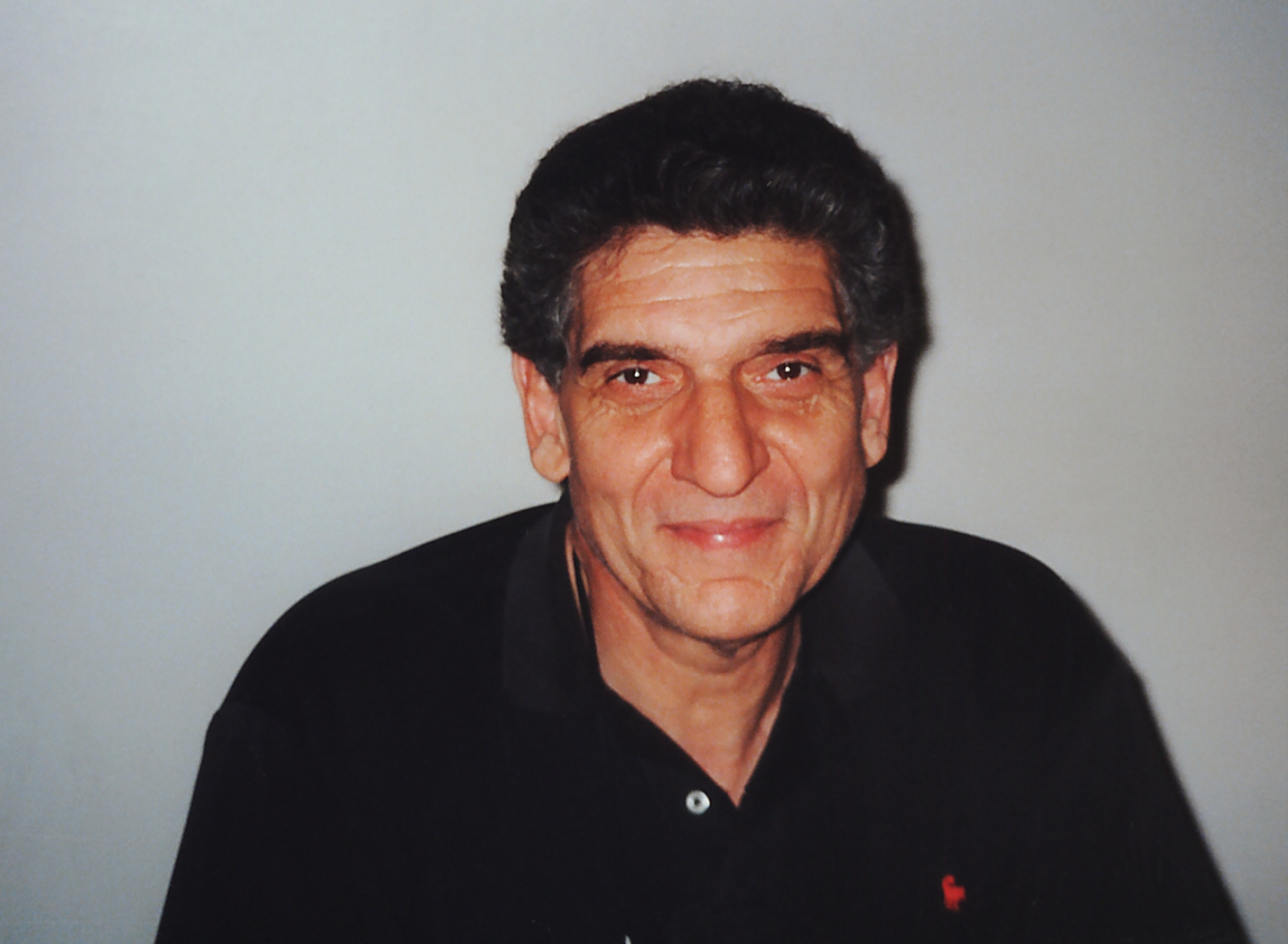 The american actor Andreas Katsulas at a Babylon 5-Event in Stuttgart, Germany, 2000.